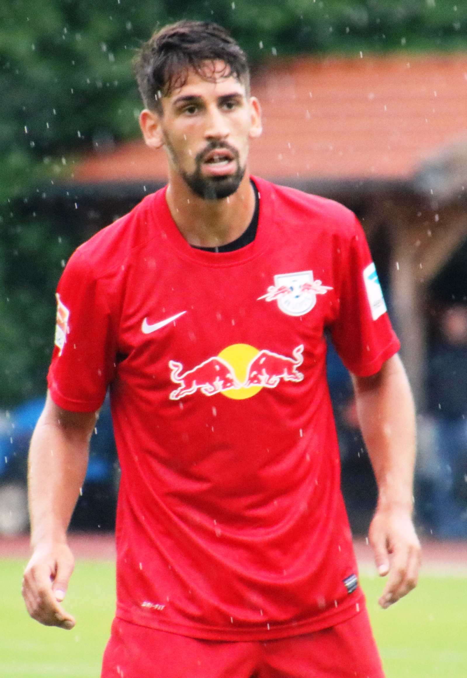 friendly match